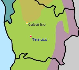 climate Galvarino